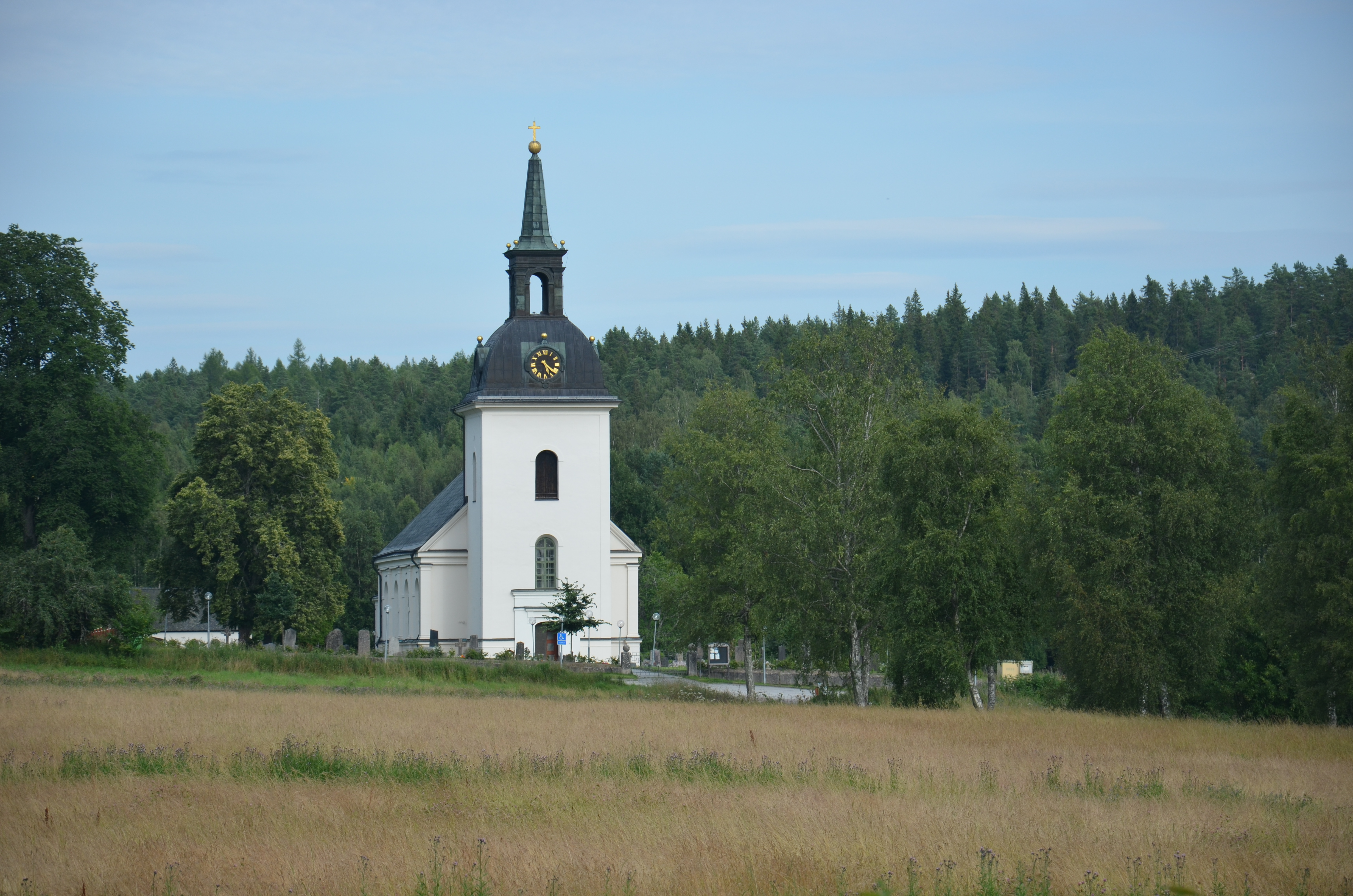 Västervåla kyrka